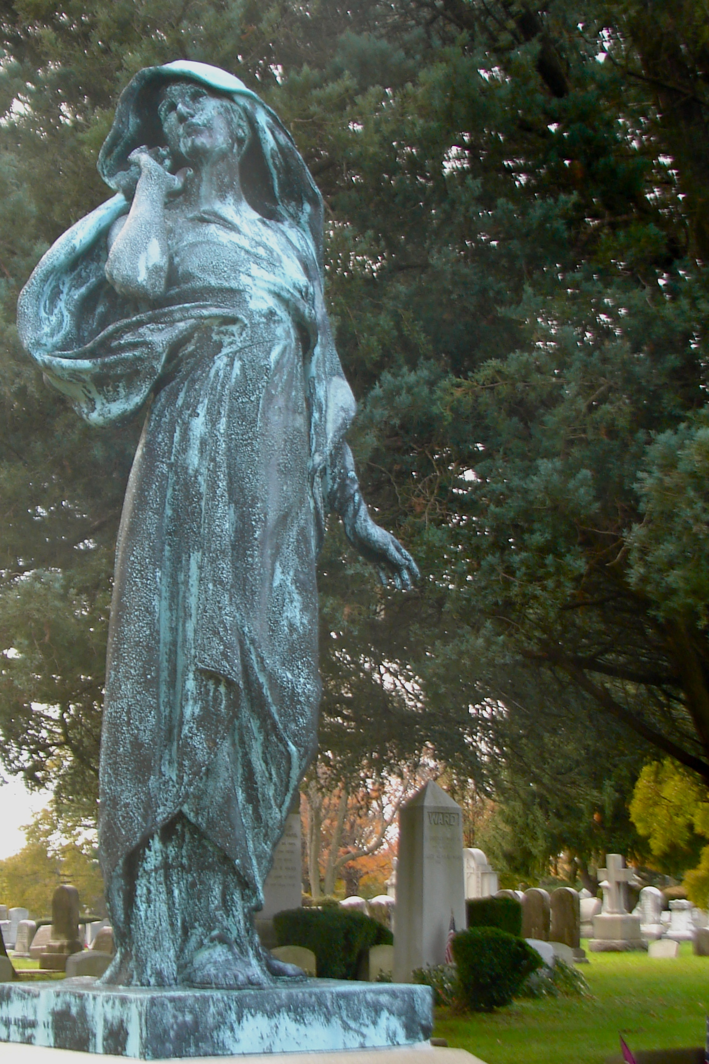 "Sorrow" by Murray, Samuel, (1870-1941) Roman Bronze Works, founder.Modeled 1910. Cast 1911. Installed before Feb. 1912. Sculpture: approx. H. 5 ft. 6 1/2 in. On the grave of Alfred O. Deshong, Chester Rural Cemetery, Chester Pennsylvania.